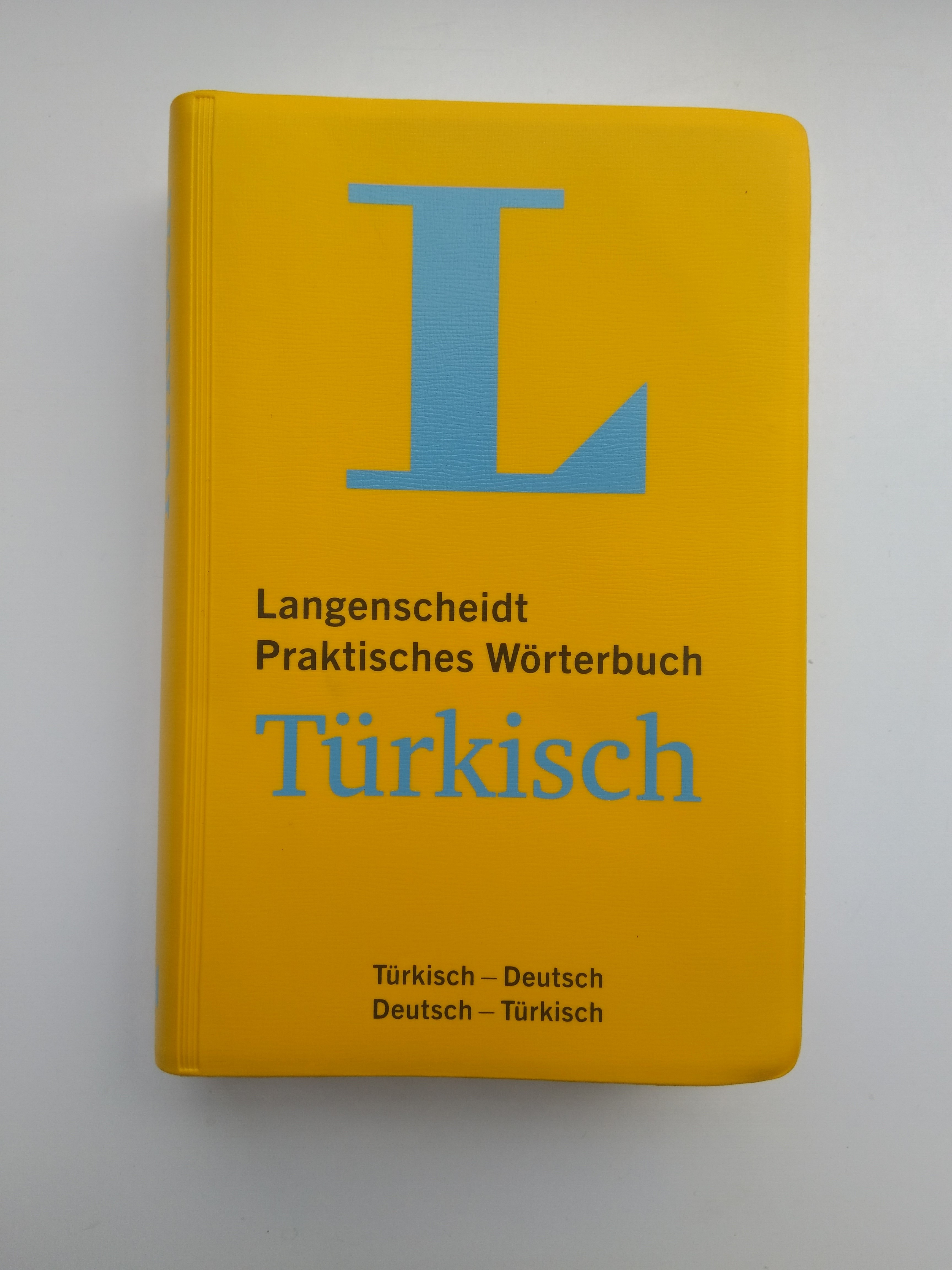 This is a Langenscheidt Dictionary. It was printed in 2015, in Germany by Langenscheidt GmbH & Co. Kg, München. It's a German-Turkish (and vice versa) dictionary with 55,000 words capacity. It's ISBN Code is: 978-468-12372-6.